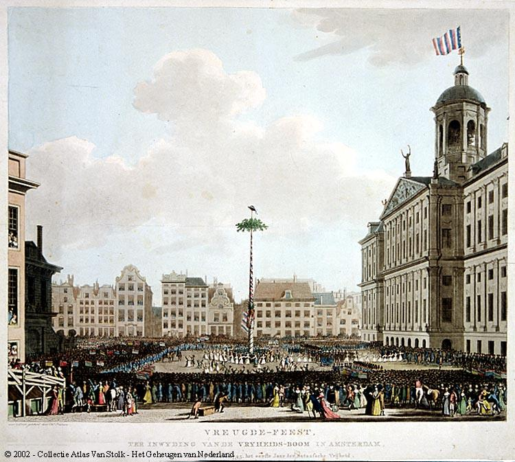 Erection of a liberty tree in Dam Square at Amsterdam after the Batavian Revolution of January, 1795